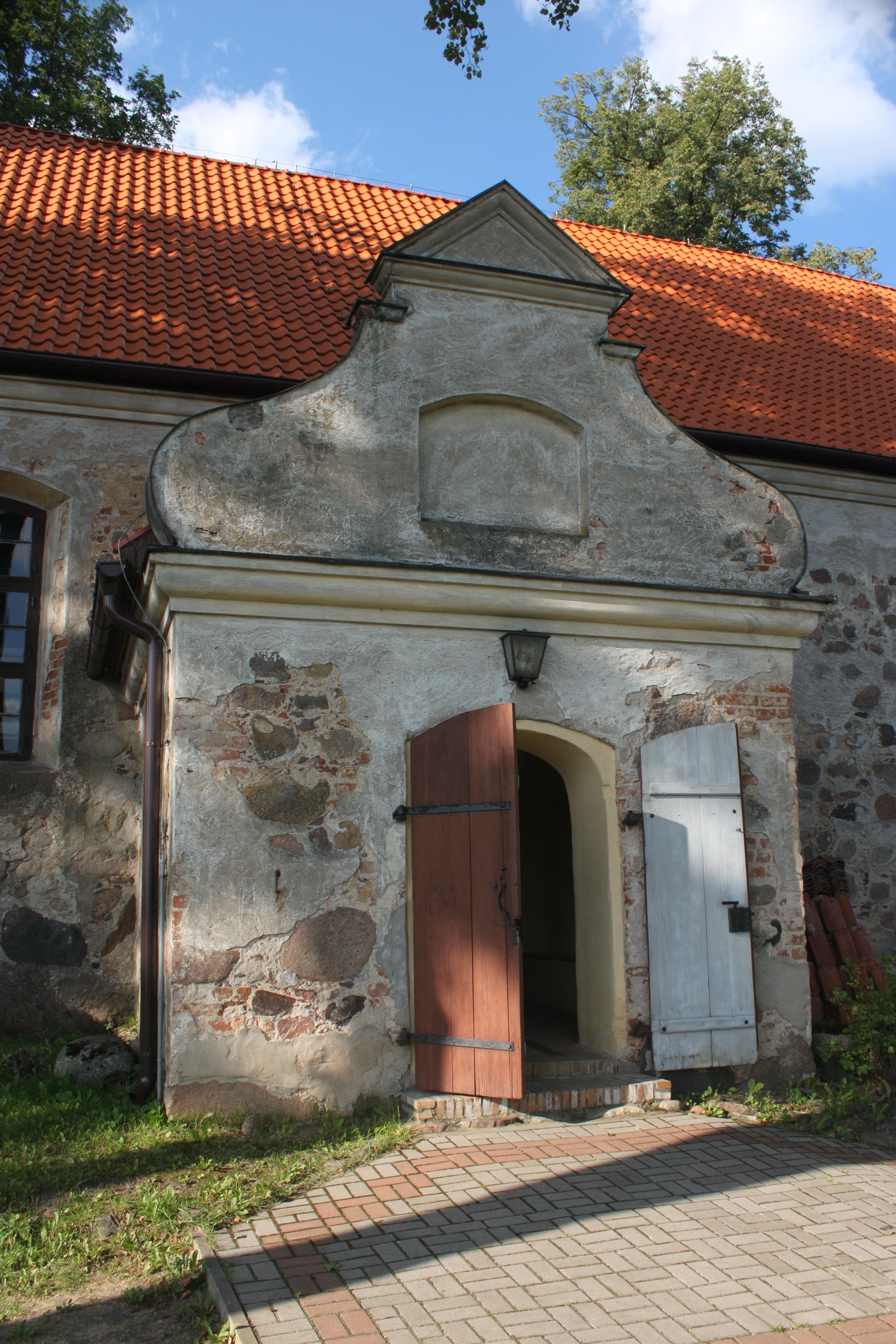 Lutheran church in Dźwierzuty and cemetery nearby.